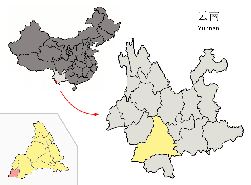 Location of Menglian County (pink) and Pu'er Prefecture (yellow) within Yunnan province of China Map drawn in september 2007 using various sources, mainly : Yunnan province administrative regions GIS data: 1:1M, County level, 1990 Yunnan Counties map from